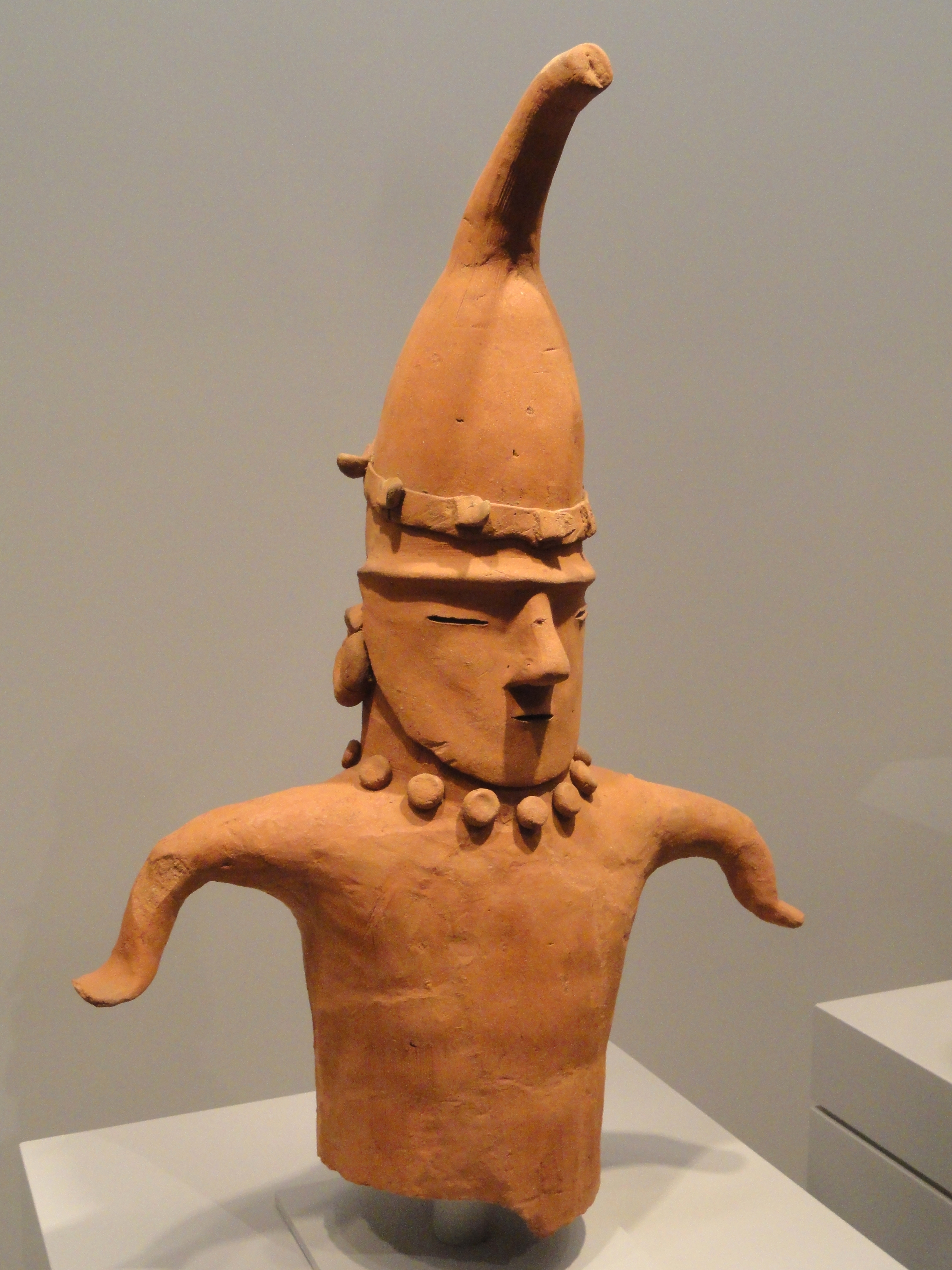 Exhibit in the Art Institute of Chicago, Chicago, Illinois, USA. This artwork is in the public domain because the artist died more than 70 years ago.